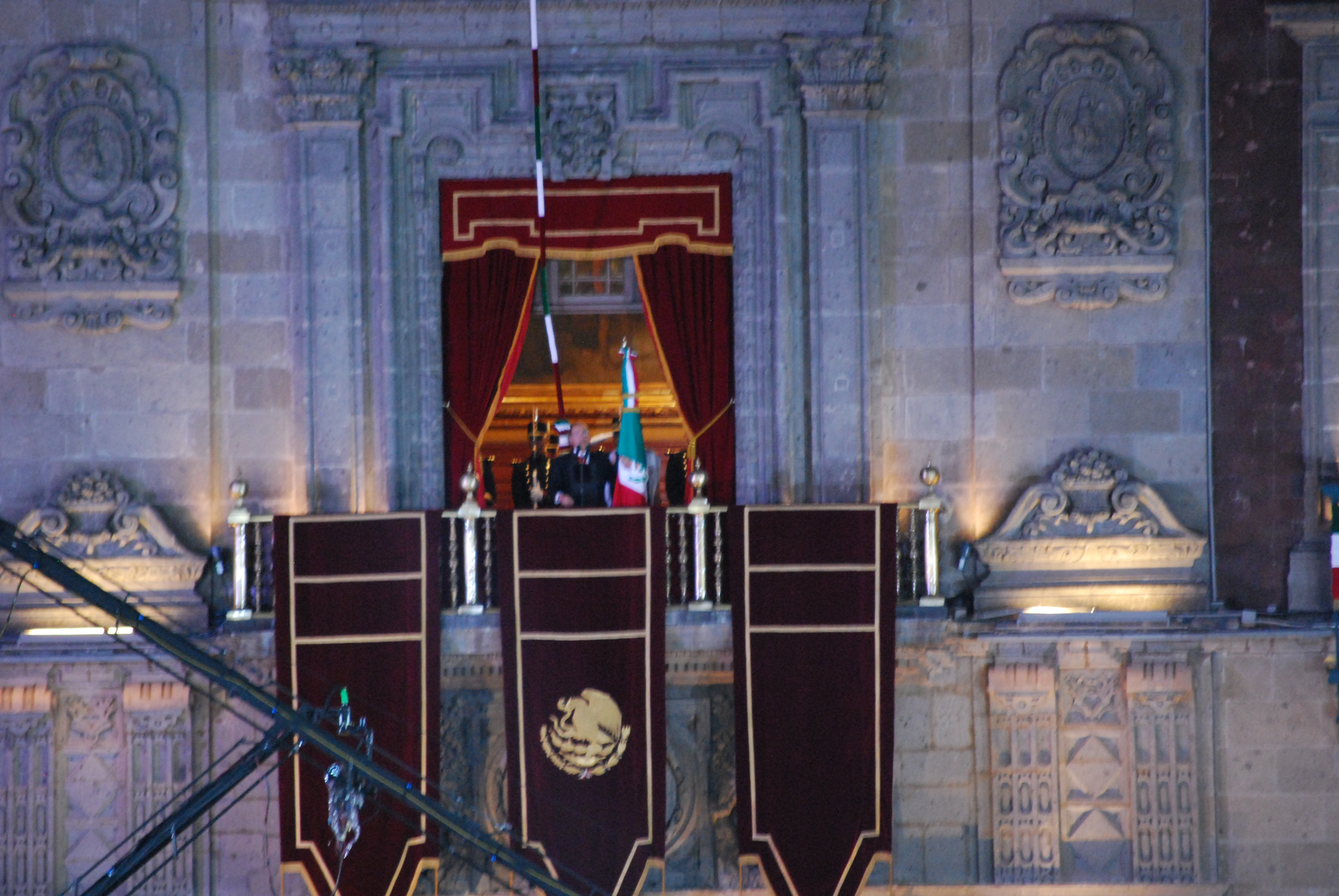 The "Grito" delivered by Felipe Calderon at the National Palace in 2010